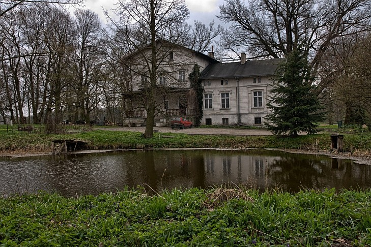 Kowalskie dom rządcy